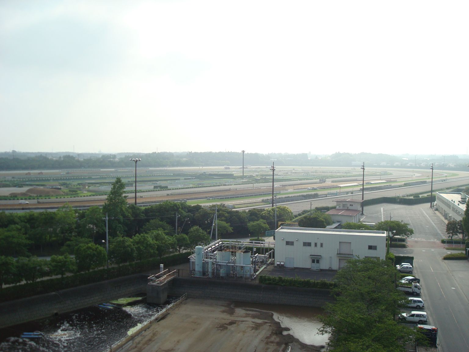 Japan Racing Association (JRA) Miho Training Center of JRA in Miho Village, Ibaraki Prefecture, Japan